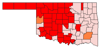 A map of the counties won by each candidate in the Oklahoma Republican primary.